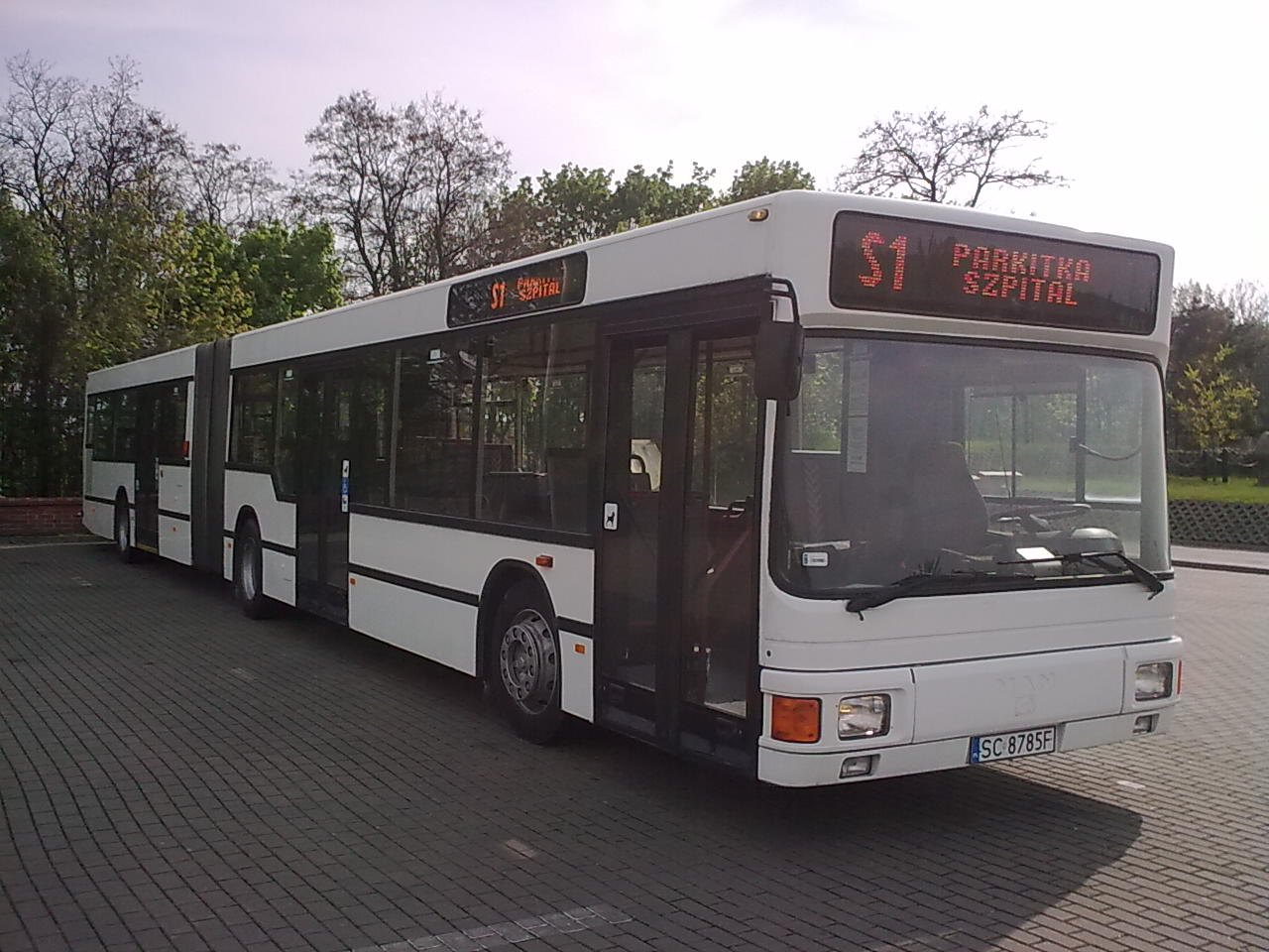 MAN NG 272 bus (#01, reg. SC 8785F) in Częstochowa, Poland. Built 1992, PZKM Częstochowa operator.